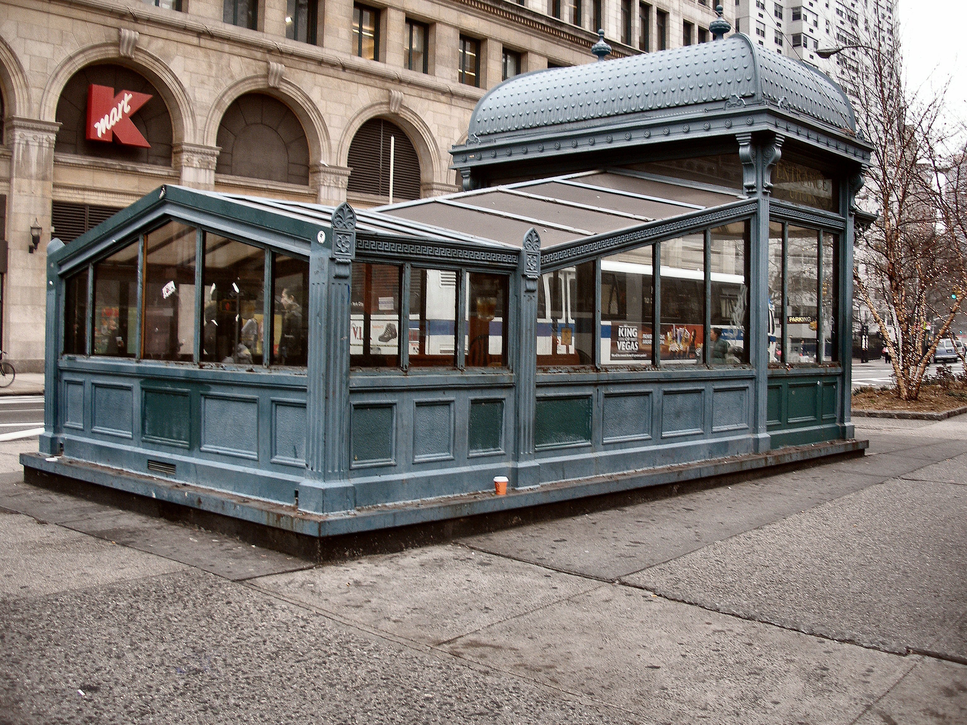 Replica of an original IRT subway entrance kiosk at Astor Place station, IRT Lexington Avenue Line. Such cast-iron and glass constructions covered the entrances and exits of the original IRT lines and soon became one of its trademarks.